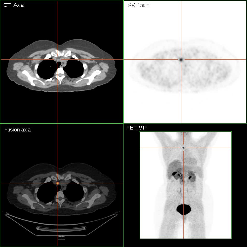 metastasis of thyroid cancer; DOPA-PET/CT